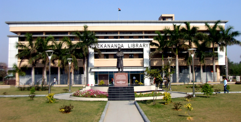 The university library system comprises a central library (the Vivekananda Library) seven satellite libraries in management, law, engineering, mathematics, hotel management and departmental libraries in the departments of sociology and history.